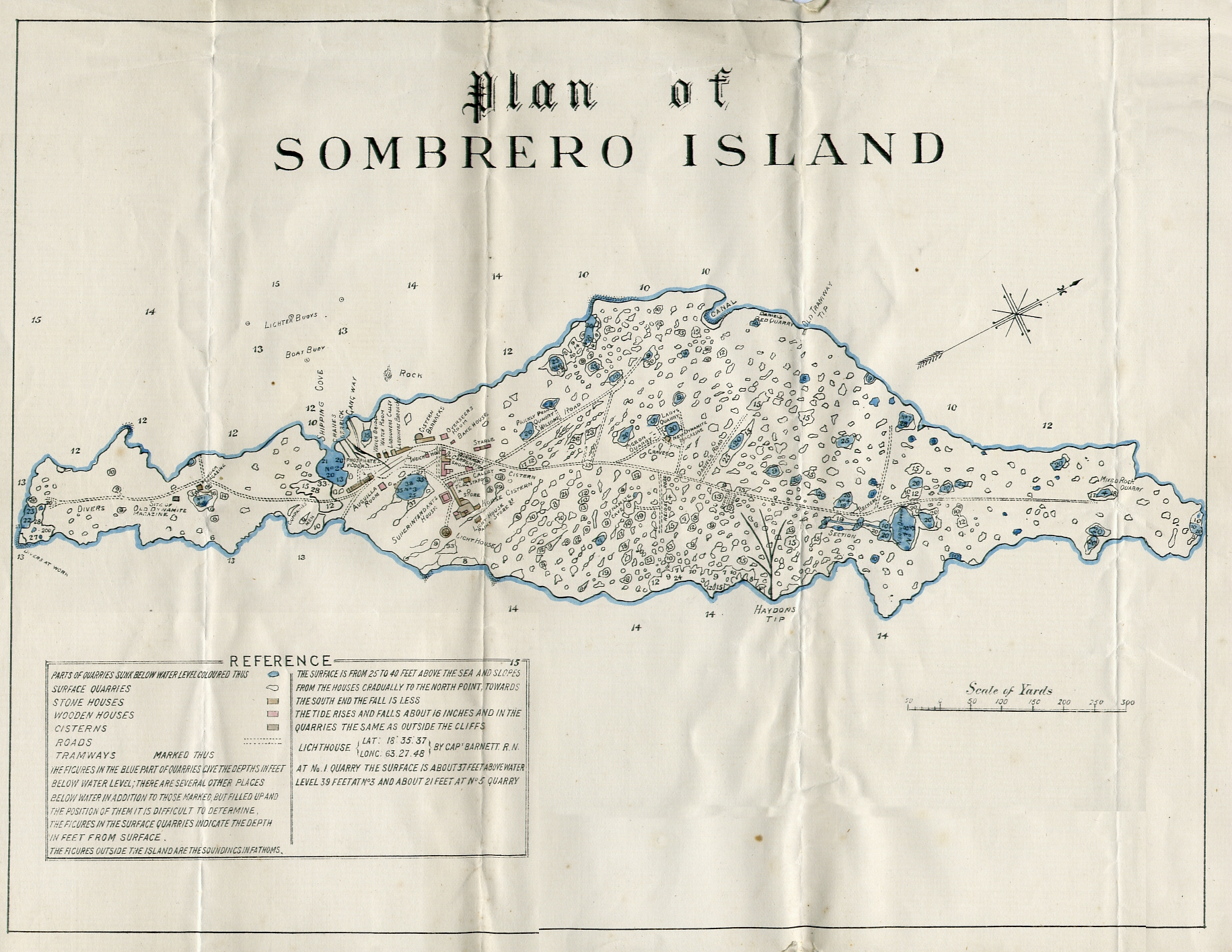 This map was made in about 1880 for the superintendant of Sombrero, Thomas Corfield.